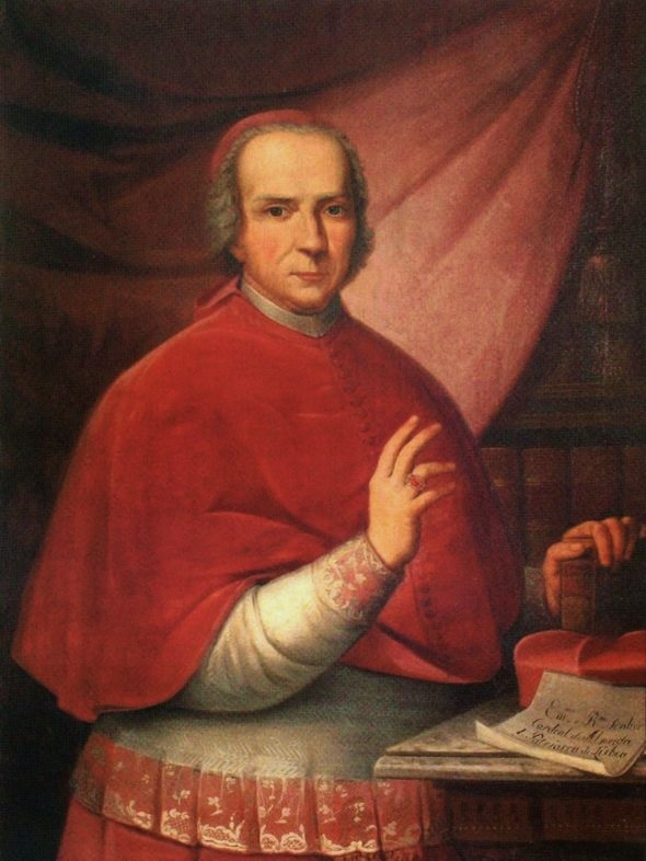 Dom Tomás de Almeida (1670-1754), 1st Cardinal-Patriarch of Lisbon.